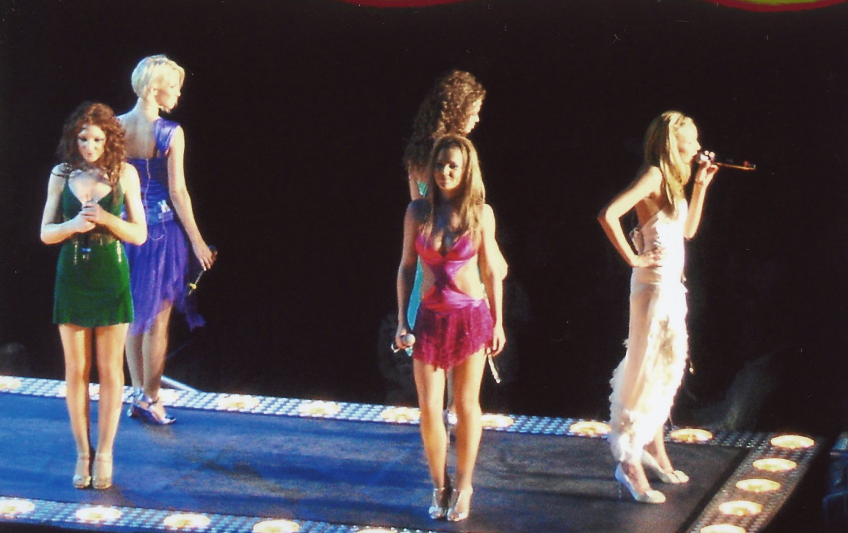 Girls Aloud - Bournemouth BIC 310506 (9)